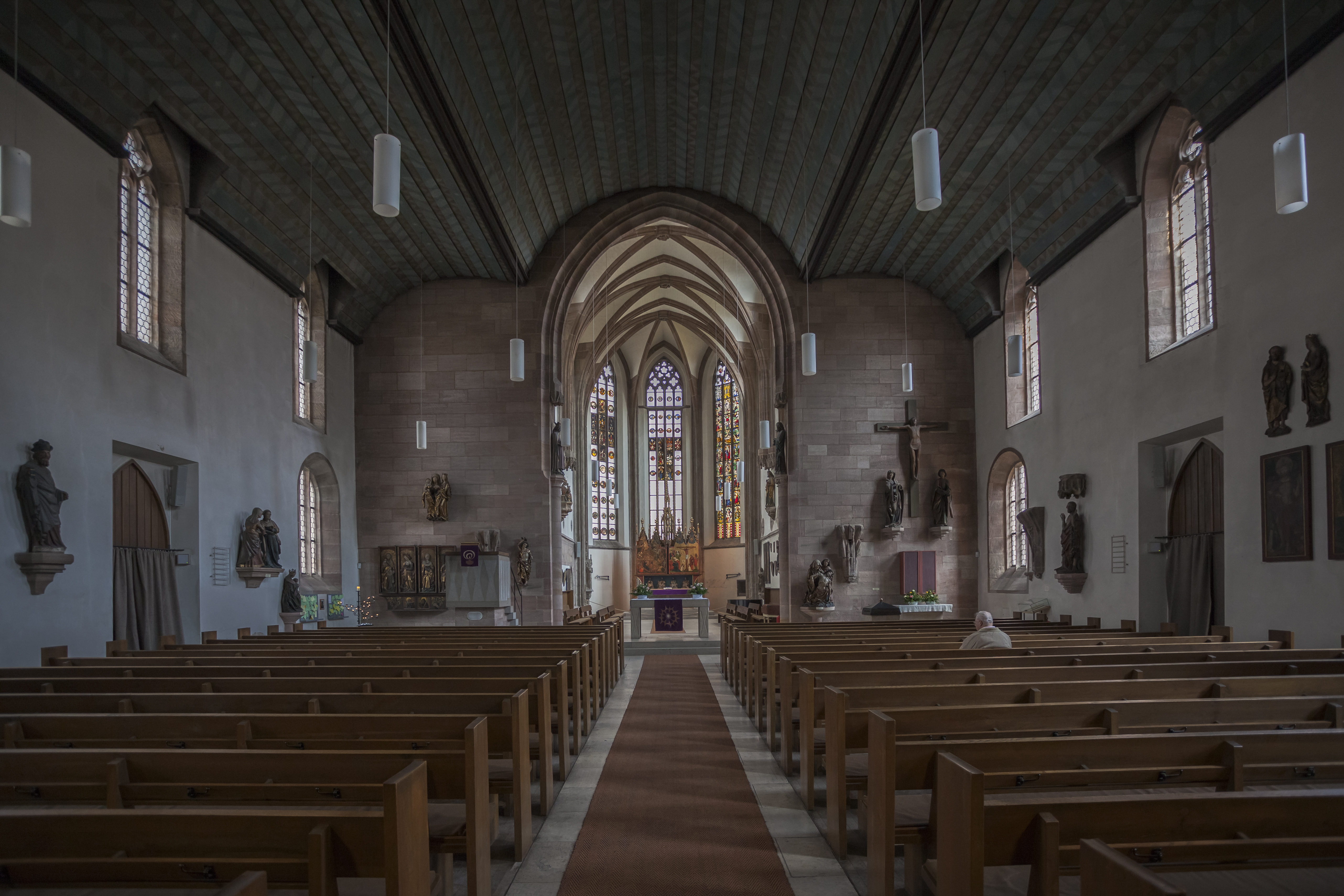 Church of St. Jacob, Nuremberg, Germany